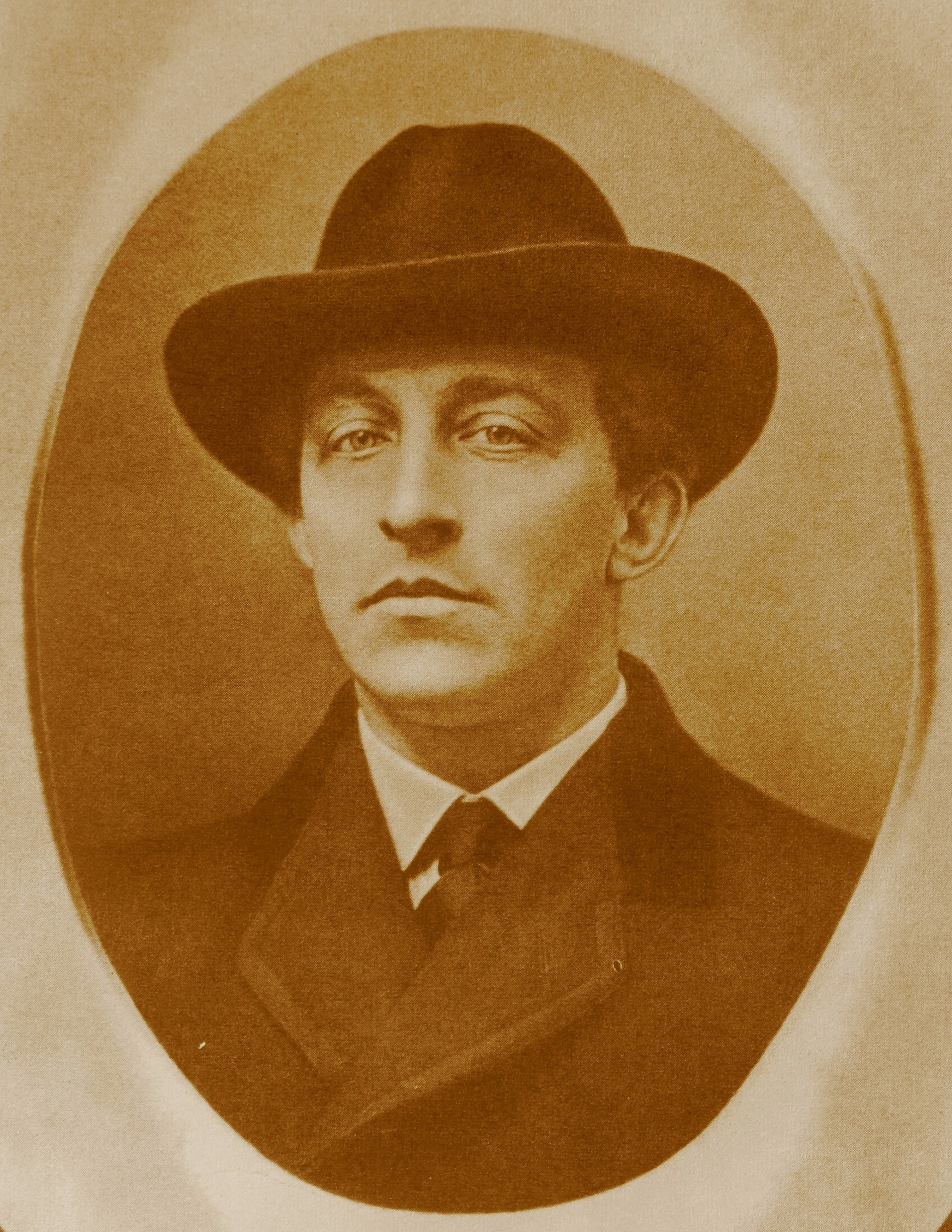 Russian poet Alexander Blok (dead in 1921). Russian Empire paspartu.